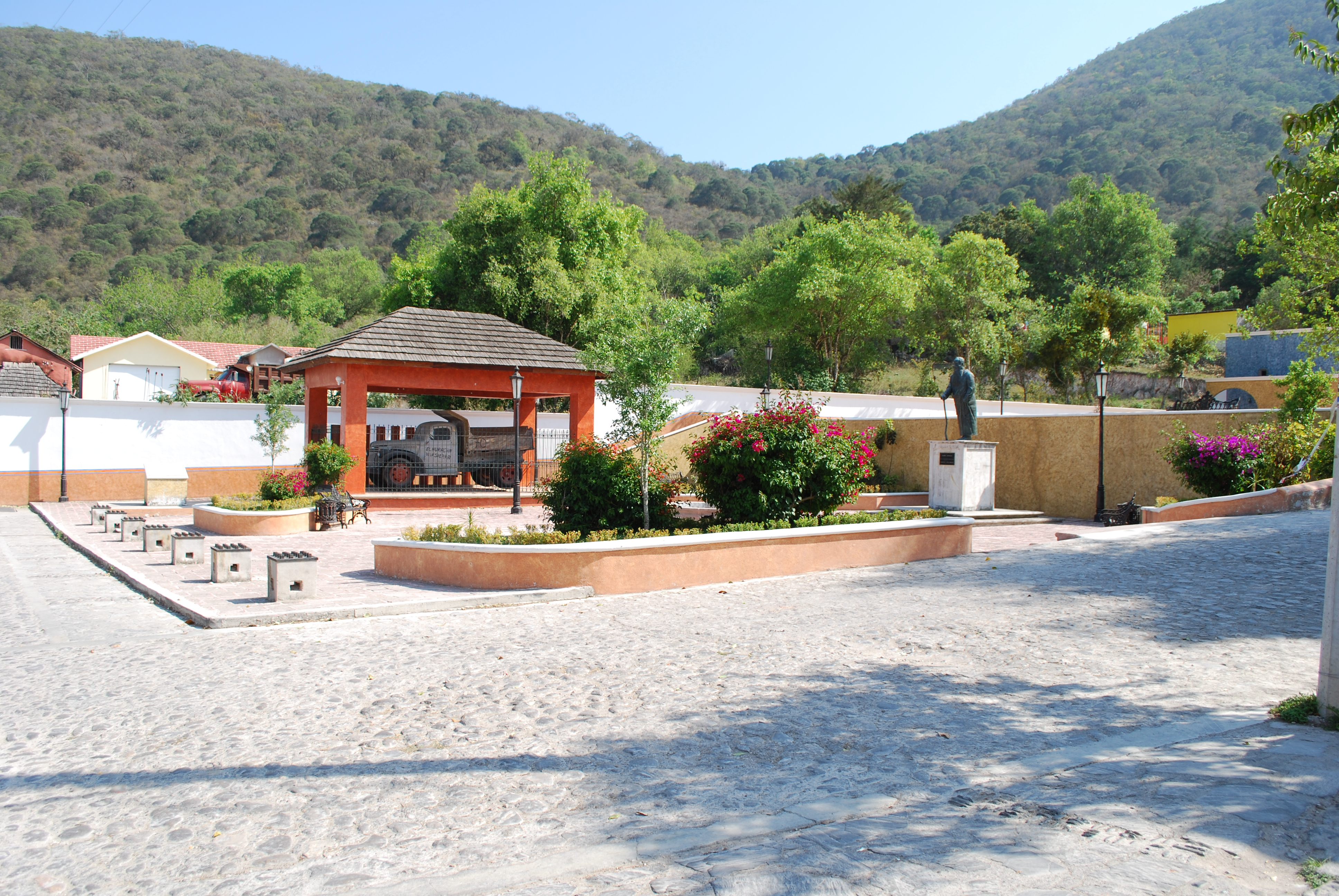 Square dedicated to Padre Miracle in Tilaco, Landa de Matamoros, Querétaro, Mexico